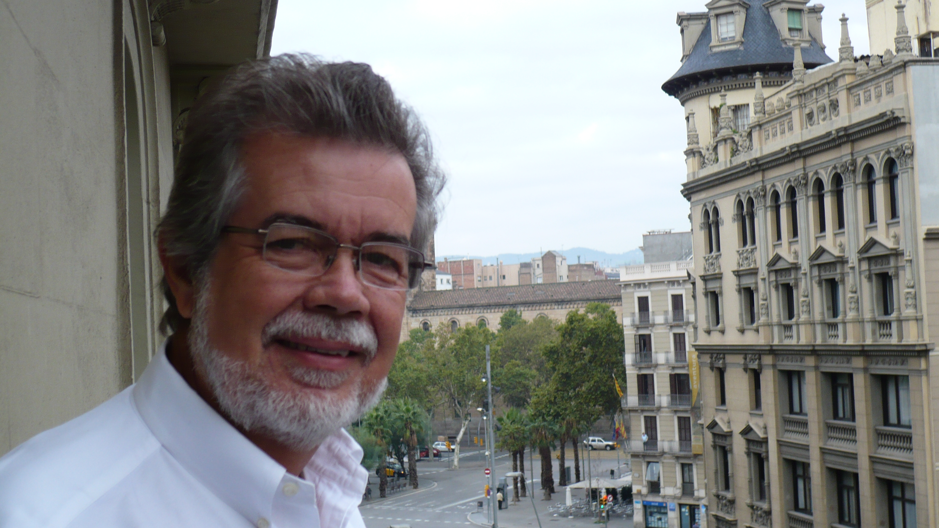 In Barcelona, 2010